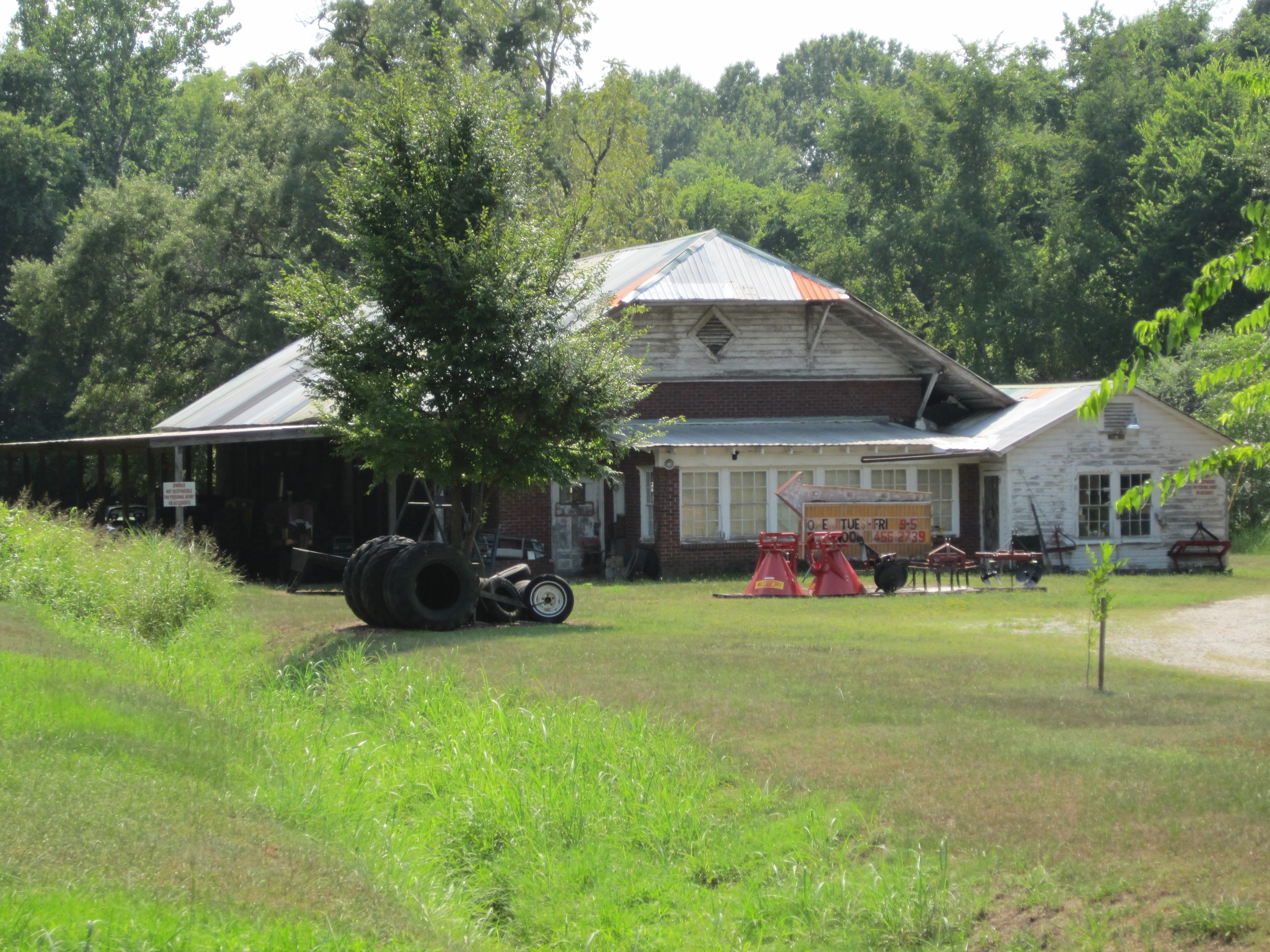 Okolona, Houston & Calhoun City Railway depot in Houston, Mississippi.